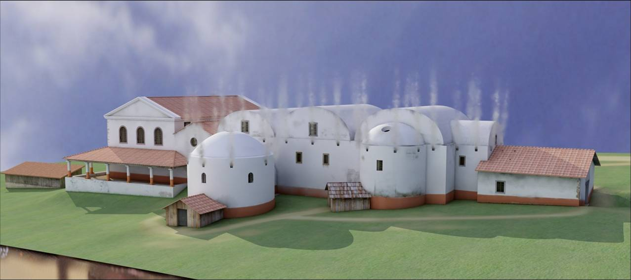 Historical Reconstruction of the Roman Baths in Weißenburg, Germany, using data from laser scan technology. These baths are a major remnant of the local Roman garrison, vicus Biriciana, whose duty was to protect the northern border of the province Rhaetia (Upper Germanic Rhaetian Limes). The baths that served the garrison, dating from 90 BCE to 259 CE, are located at the edge of the modern city of Weißenburg in Bavaria. Discovered in 1977, they are among the very few such Roman archaeological remains to be preserved on German soil. This historic restoration is based on what the Roman Baths of Weißenburg would have looked like in their final phase of functionality. Smoke rises where slaves fanned the fires from small pits in front of the air shafts, using wood and charcoal, and the hot air escaped into the two lukewarm baths. The baths were heated day and night, as it would have taken several days to reheat a bath once it had cooled down.